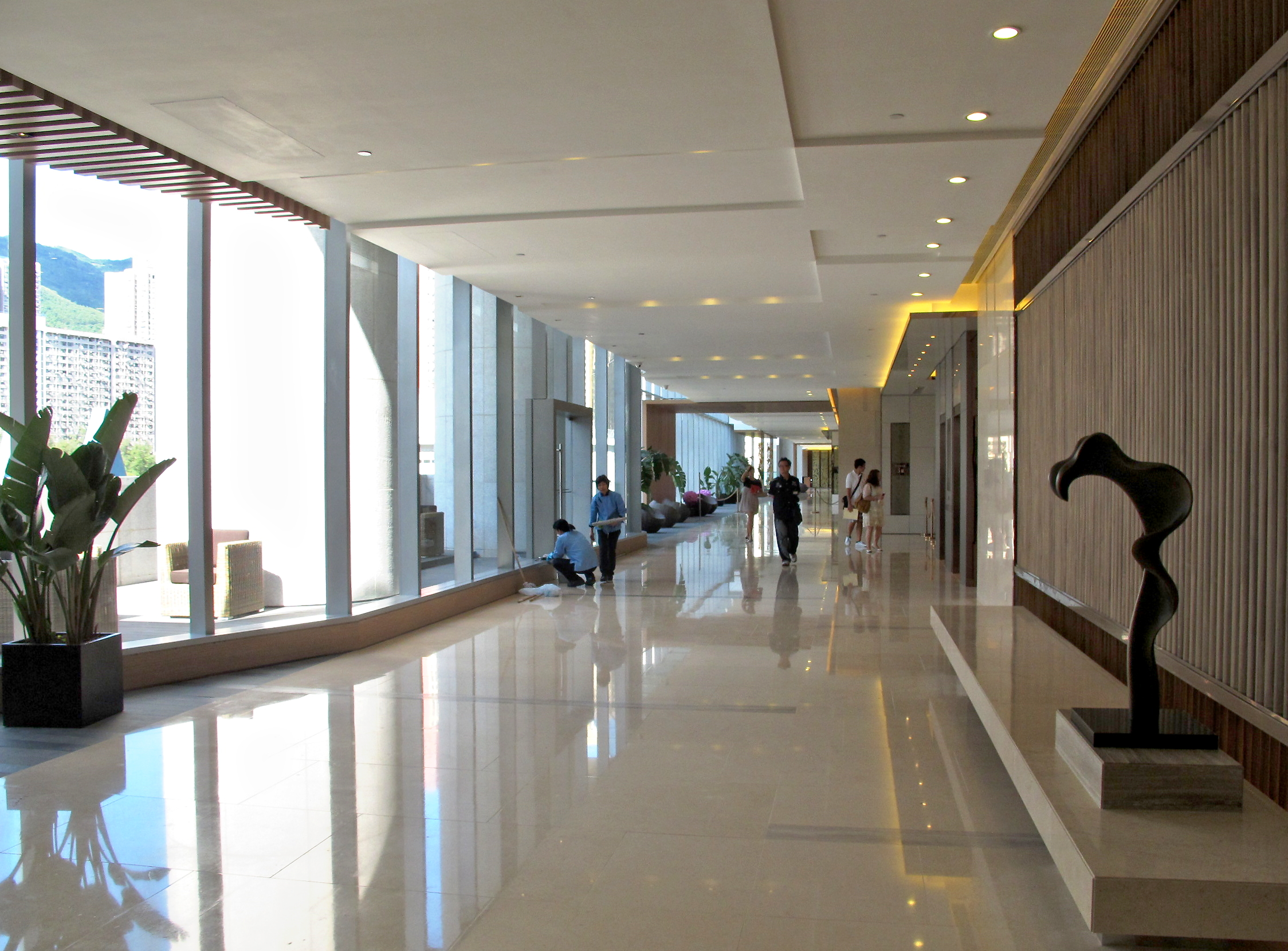 Lion Rise 4 Seasons Corridor 現崇山6樓「四季長廊」